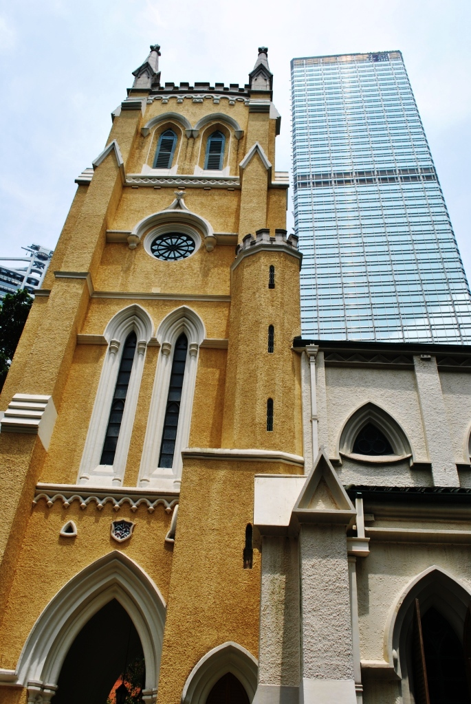 St. John's Cathedral